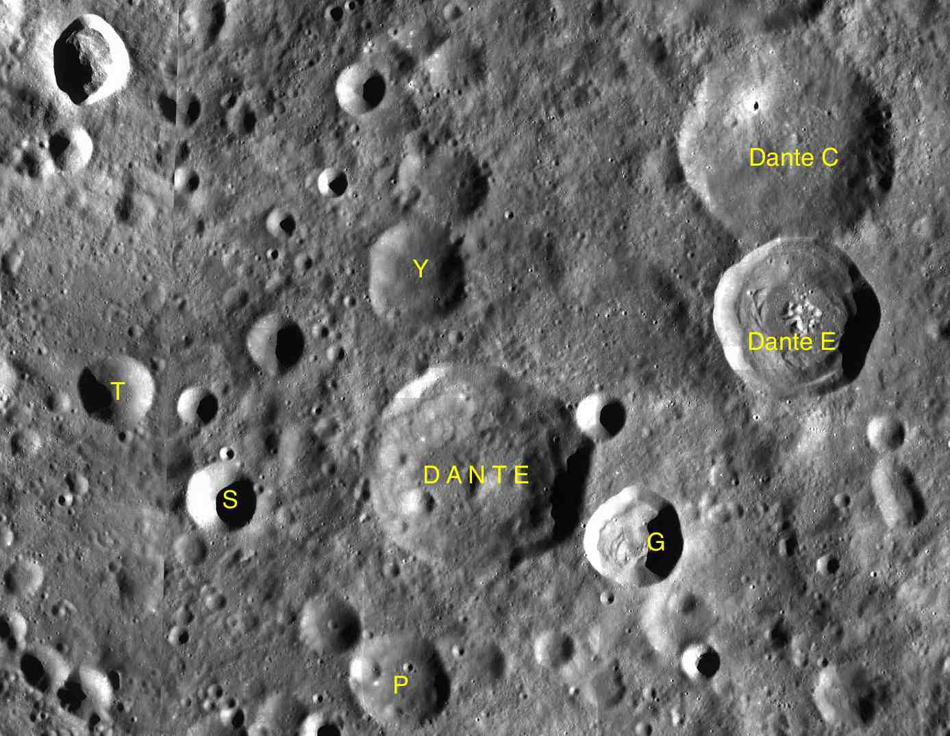 Part of the chart LAC-50 used for the presentation